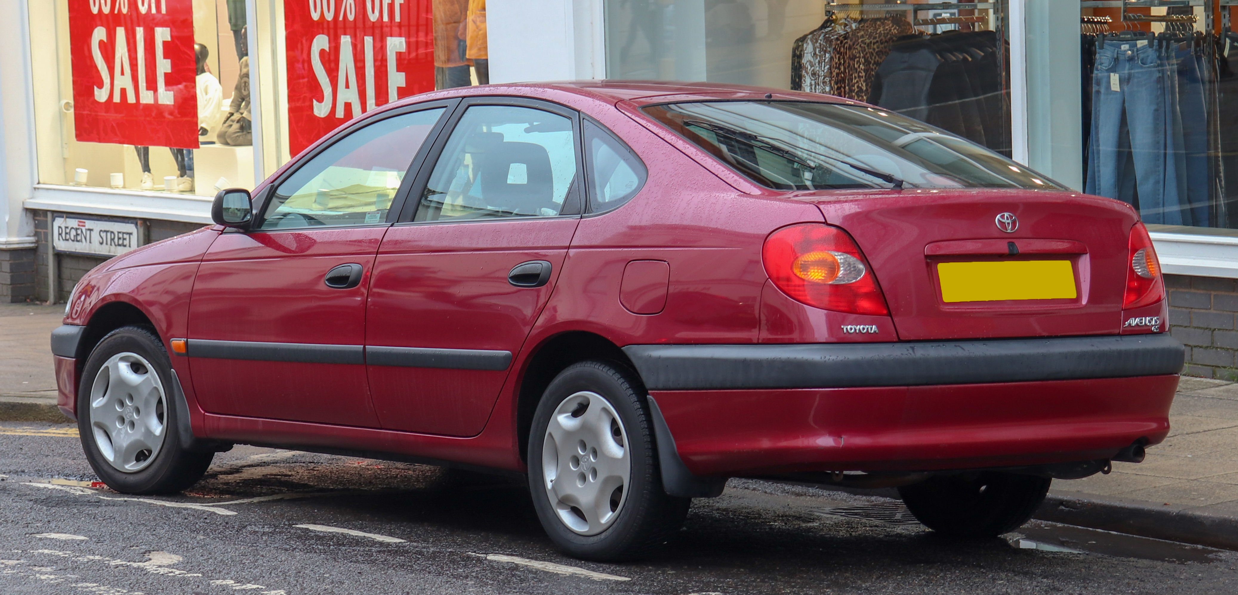 2000 Toyota Avensis GS 1.6 Rear Taken in Leamington Spa